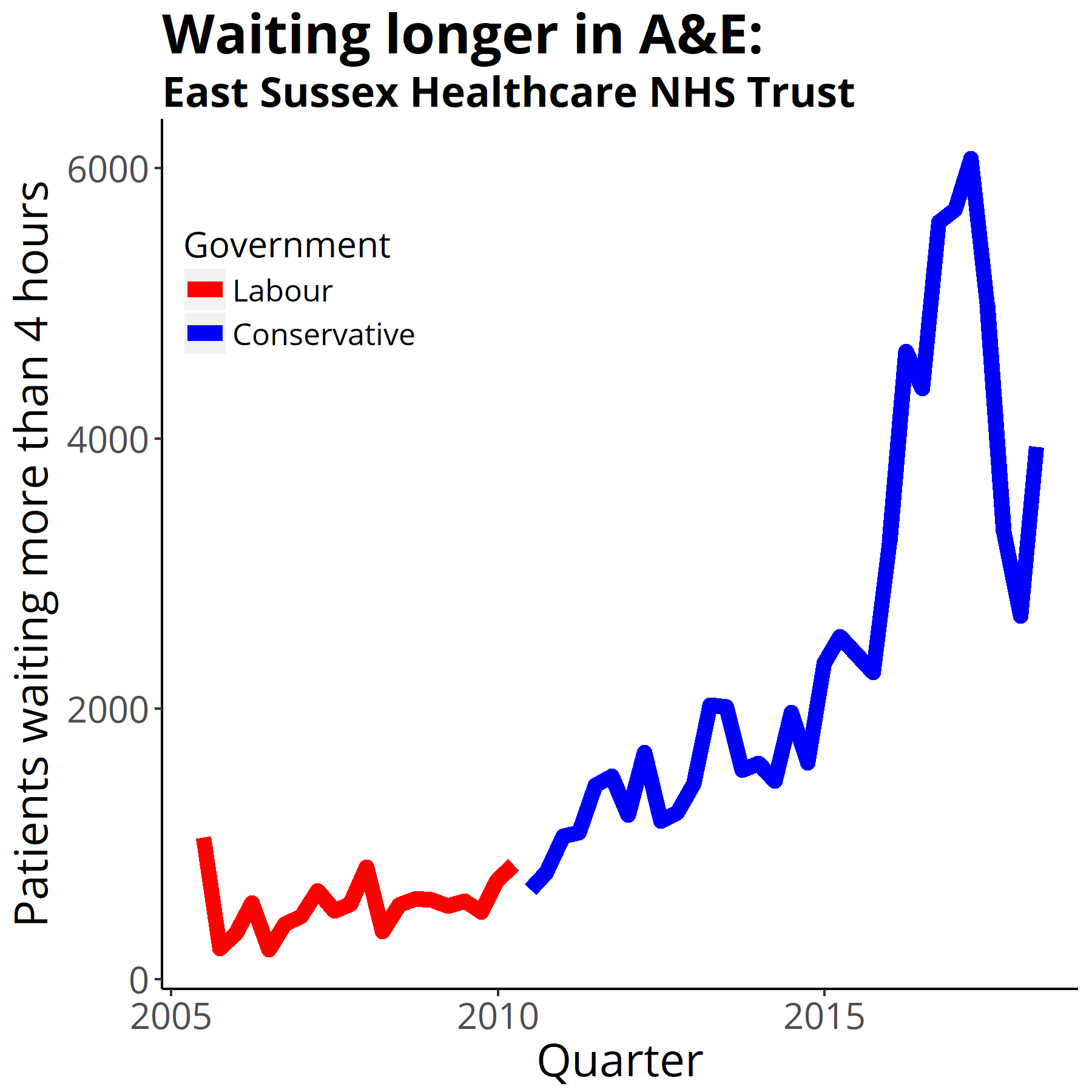 Four-hour target in the emergency department quarterly figures from NHS England Data from